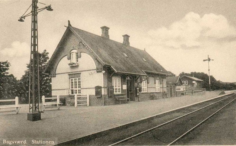 An early Photo of the now demolished first Bagsværd Station in Bagsværd, Copenhagen, Denmark